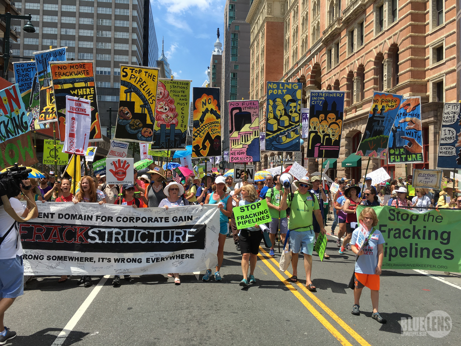 One of many photos that I took at the Clean Energy March in Philadelphia on July 24, 2016. It was extremely hot that day, but I heard informally that over 7k people showed up! - Mark Dixon .